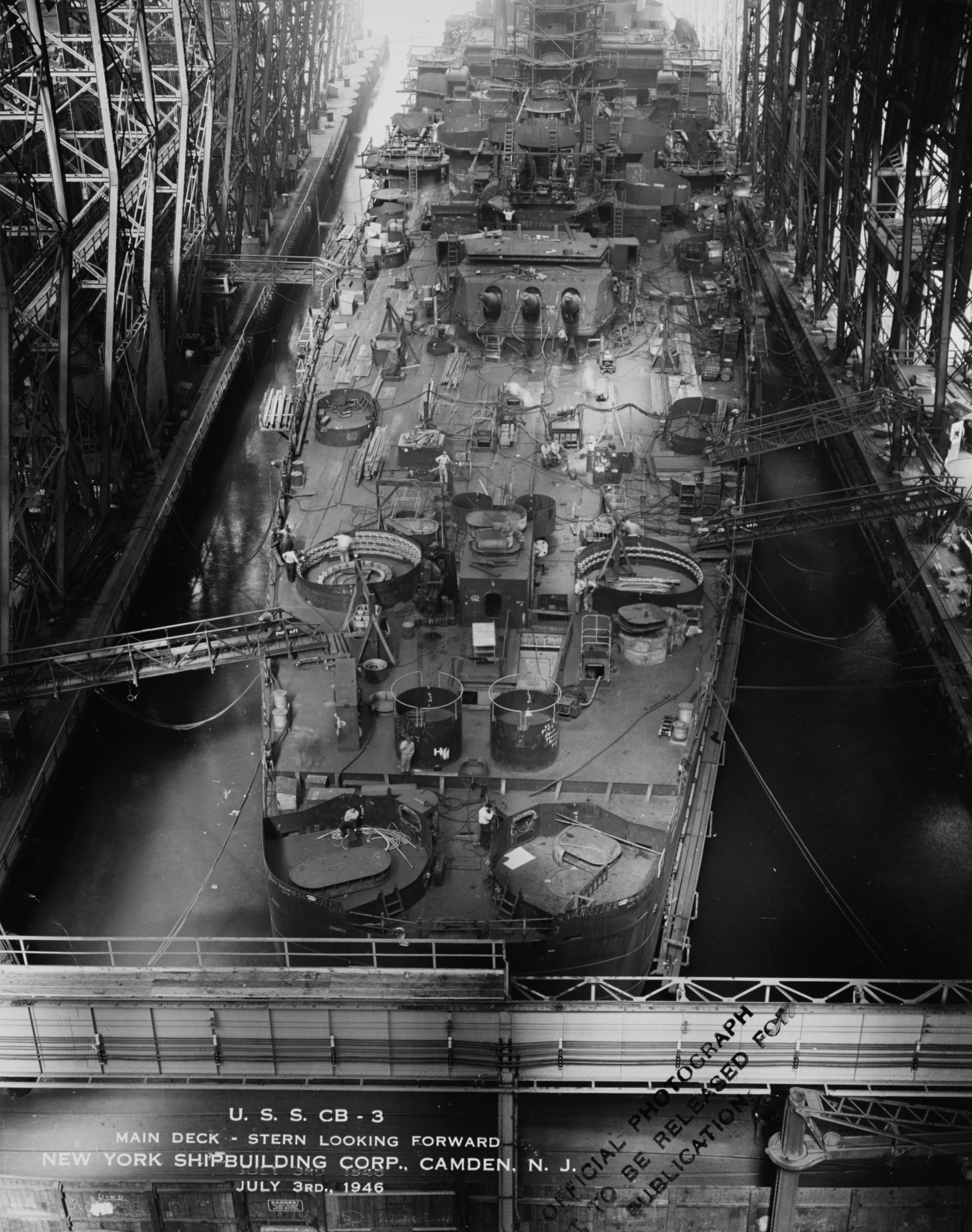 USS Hawaii (CB-3) under construction at the New York Shipbuilding Corp., Camden, New Jersey on 3 July 1946. The after 12" turret and three after 5" mounts are in place--the latter without their shields. Shipyard gear and men on deck indicate that construction was still underway, but little additional visible progress was made before work was officially suspended on 17 February 1947. Original caption: “Photo # NH 93585 USS Hawaii fitting out 3 July 1946, stern view”